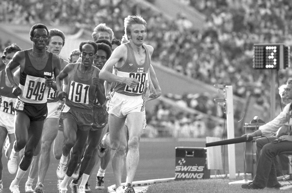 “5,000 m race”. Track and field athletics. The 22nd Summer Olympic Games in Moscow (July 19 - August 3, 1980). Athlets: 649 - Suleiman Nyambui (Tanzania) 191 - Miruts Yifter (Ethiopia) 208 - Kaarlo Maaninka (Finland)